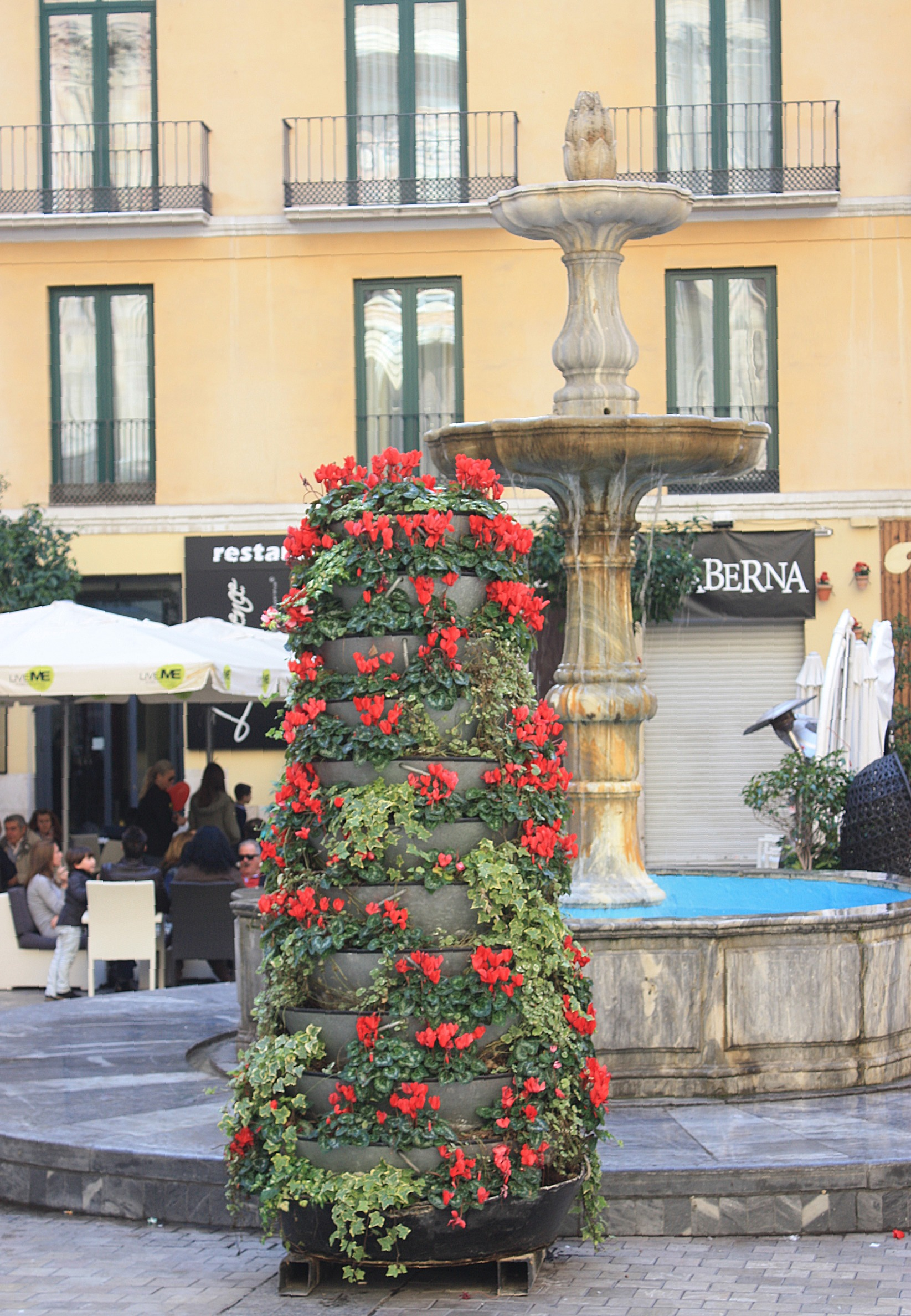 Málaga, fountain on the square "Plaza del Obispo"